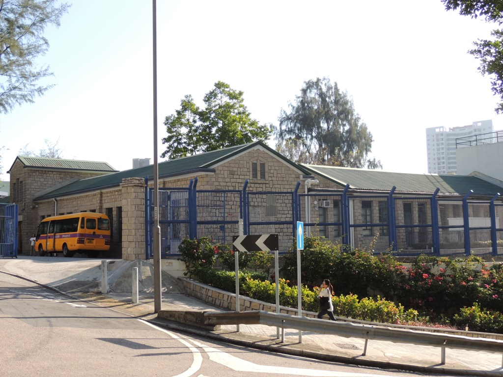 Meng Tak Primary School, Old Portion